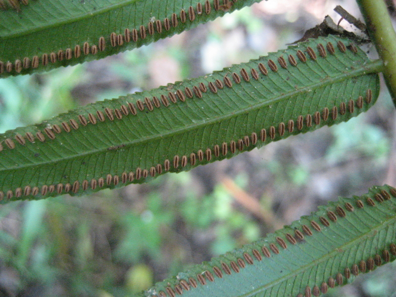 Detail of a leaf of a fern (Marattia fraxinea, Marattiaceae) growing on Mount Tanguena, Serra Choa, Manica province of Mozambique